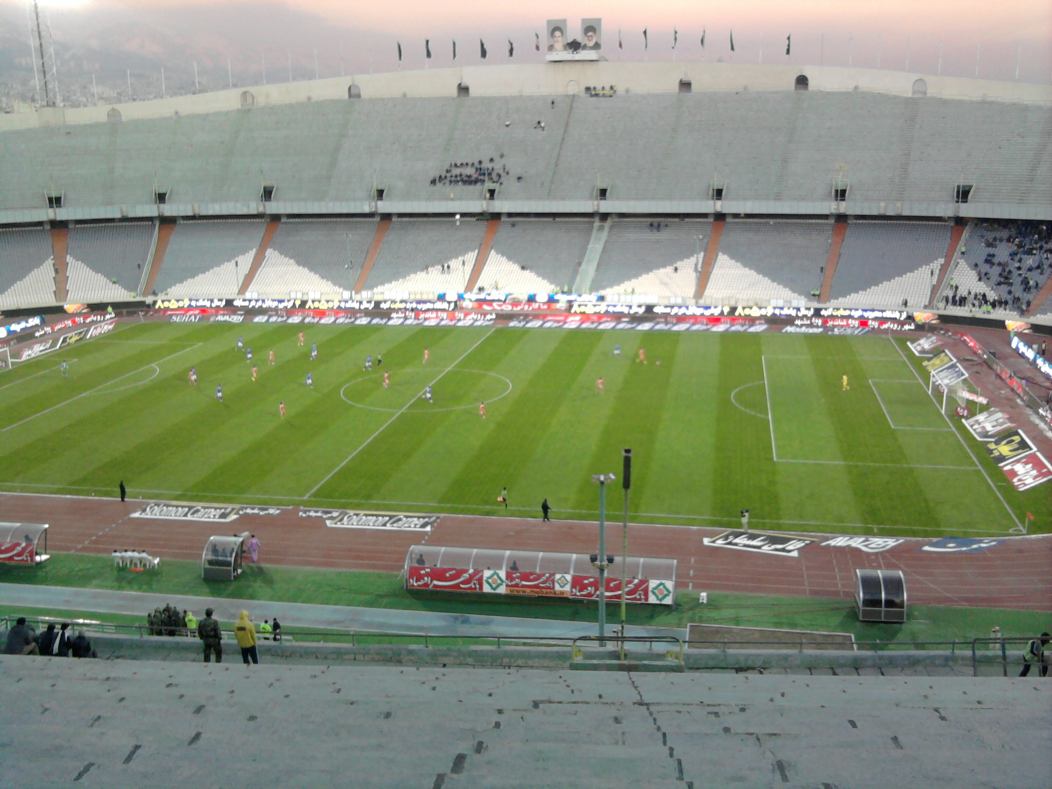 Race Esteghlal and Caspian in Hazfi Cup